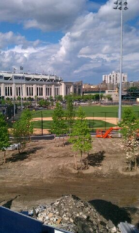 Picture taken of Heritage Field in Macombs Dam Park, outside Yankee Stadium. Created 5/21/2011 by myself Kjscotte34 (talk) 13:09, 27 July 2011 (UTC)